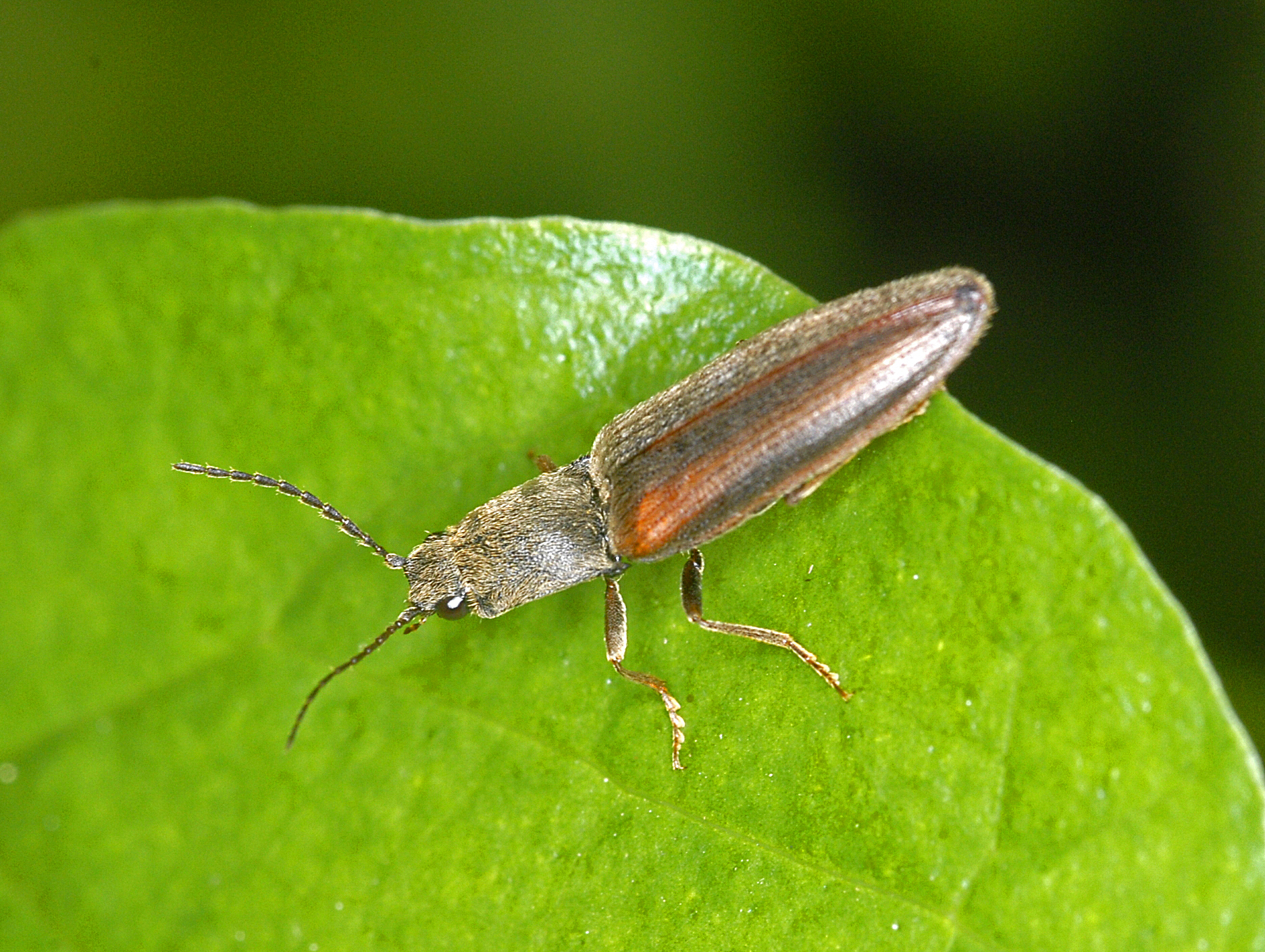 Athous vittatus. Val Noci, Genova, Italy